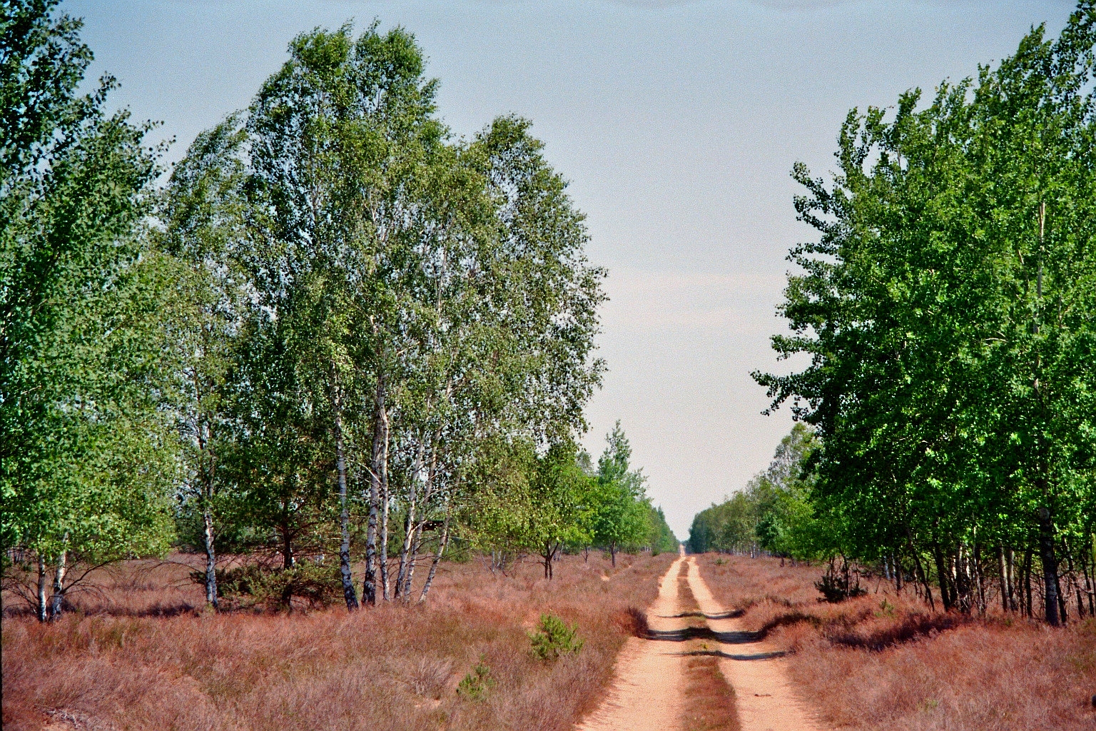 Reicherskreuzer Heide in Brandenburg, Germany.